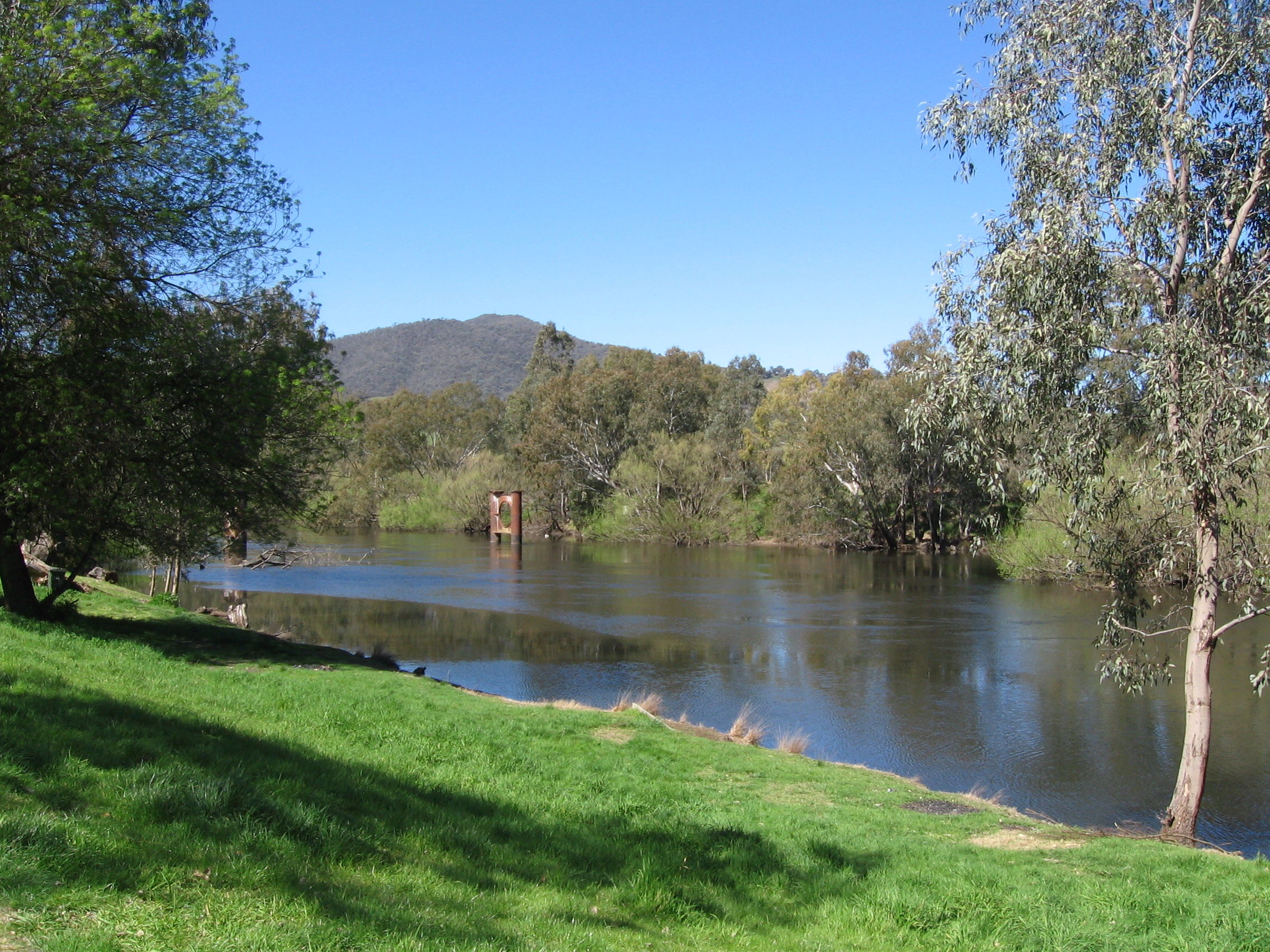 The Murray River at Jingellic, New South Wales